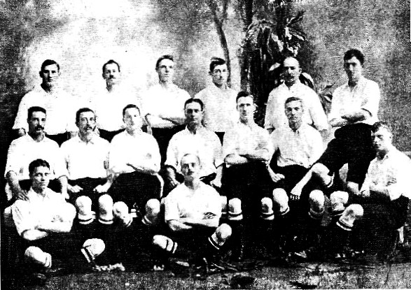 The South African F.A. team that toured on South America in 1906. Players are (standing): W.G. Brown, F. Findlay, A.W. McIntyre, G. Hartigan, W.F. Schmidt, H.J. Henman; (middle): A.W. King, R.F. Thorne, J.H. Robison, H.N. Heeley, T. Chalmers, W.T. Mason, R. Taylor; (down): E.H. Johnson, J.W. Binckes. They played a total of 12 matches in Argentina, Brasil and Uruguay, losing only to Argentine Alumni A.C.